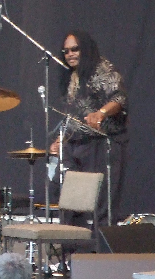 Alphonse Mouzon, at "Jazz im Palmengarten", Frankfurt am Main